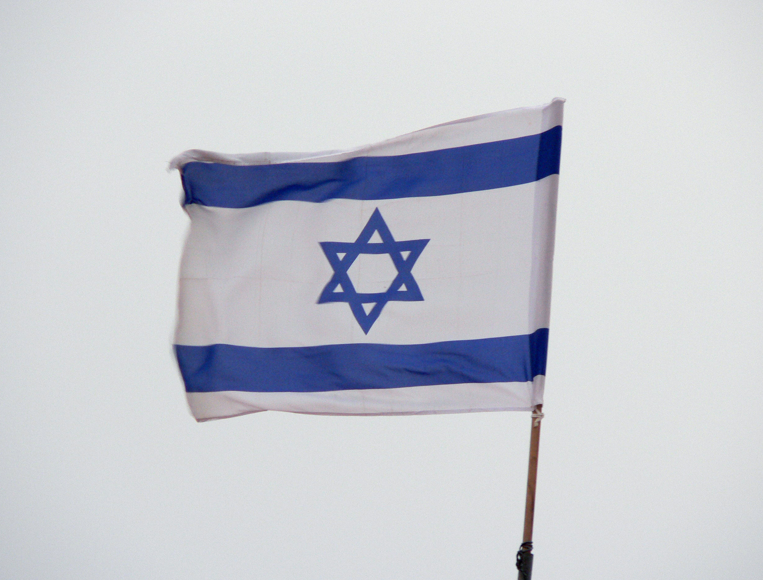 Flag of Israel (pleas avoid use it in an abusive manner) Author: MathKnight